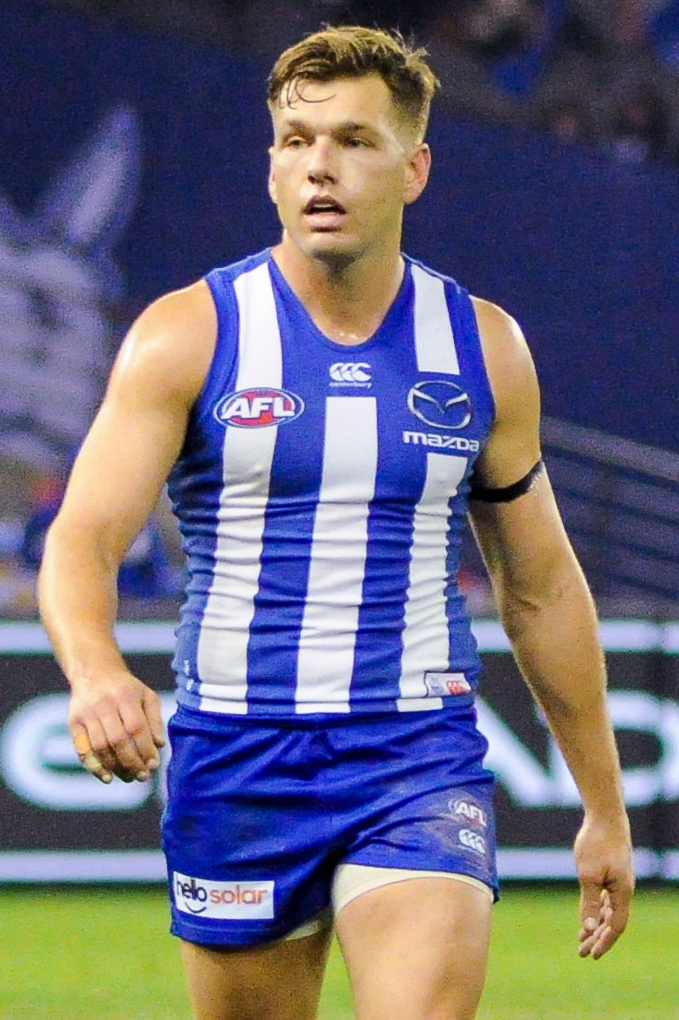 Shaun Higgins during the AFL round thirteen match between North Melbourne and St Kilda on 16 June 2017 at Etihad Stadium in Melbourne, Victoria.